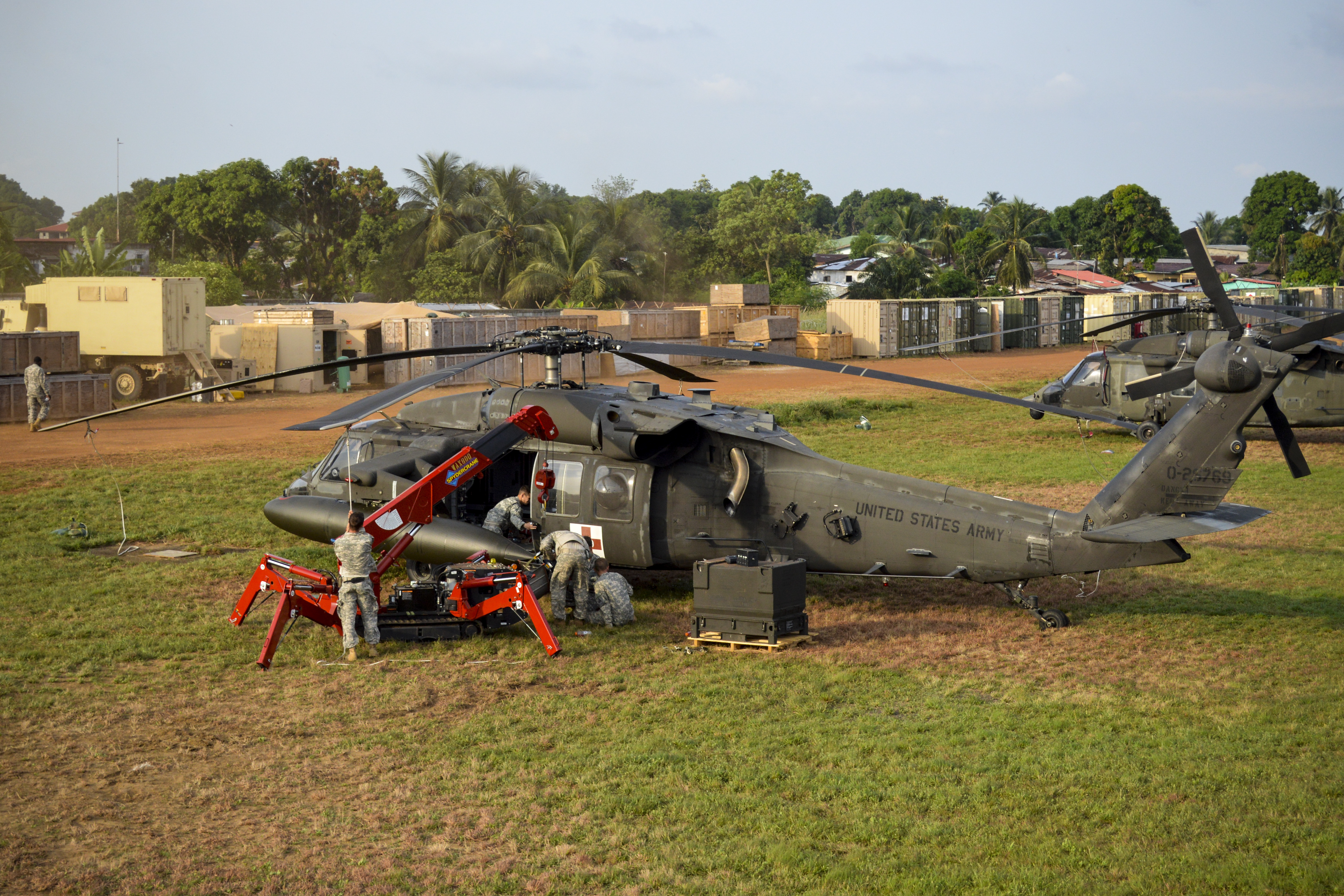 A maintenance crew from Task Force Iron Knights, 2nd Battalion, 501st Aviation Regiment, 1st Combat Aviation Brigade, 1st Armored Division, conducts helicopter maintenance on a UH-60 Black Hawk at James Spriggs Payne Airfield, Monrovia, Liberia, using a spider crane Dec. 13, 2014. It took only two weeks for the Iron Knights to deploy from Fort Bliss, Texas, to Liberia after receiving their orders. Operation United Assistance is a Department of Defense operation in Liberia to provide logistics, training and engineering support to U.S. Agency for International Development-led efforts to contain the Ebola virus outbreak in western Africa. (U.S. Army photo by Staff Sgt. Terrance D. Rhodes, Joint Forces Command – United Assistance Public Affairs/RELEASED)